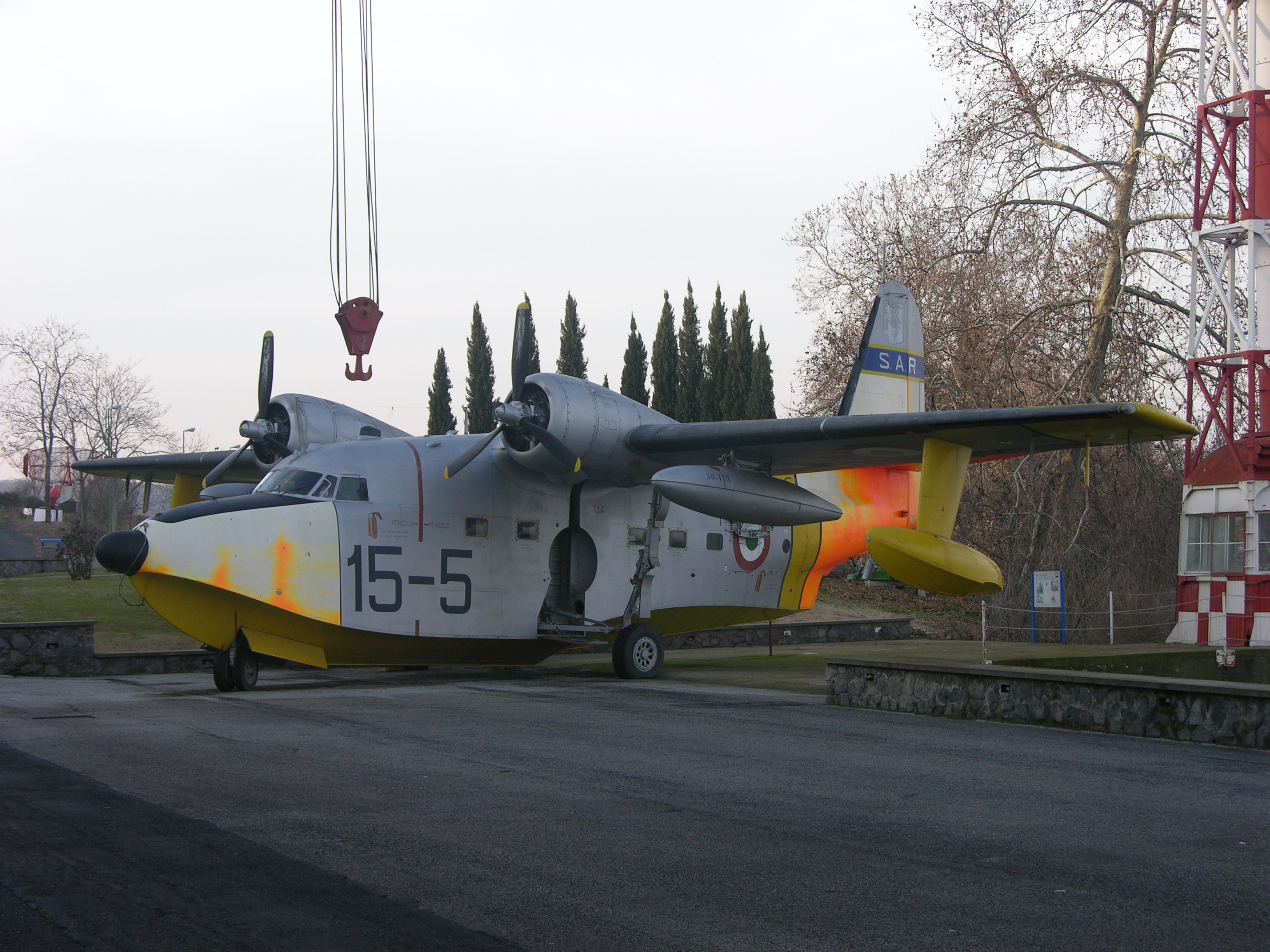 Another Vigna di Valle exhibit, a Grumman HU-16B Albatross. The crane pulley was the mechanism for moving the aircraft from the land to the adjacent lake.